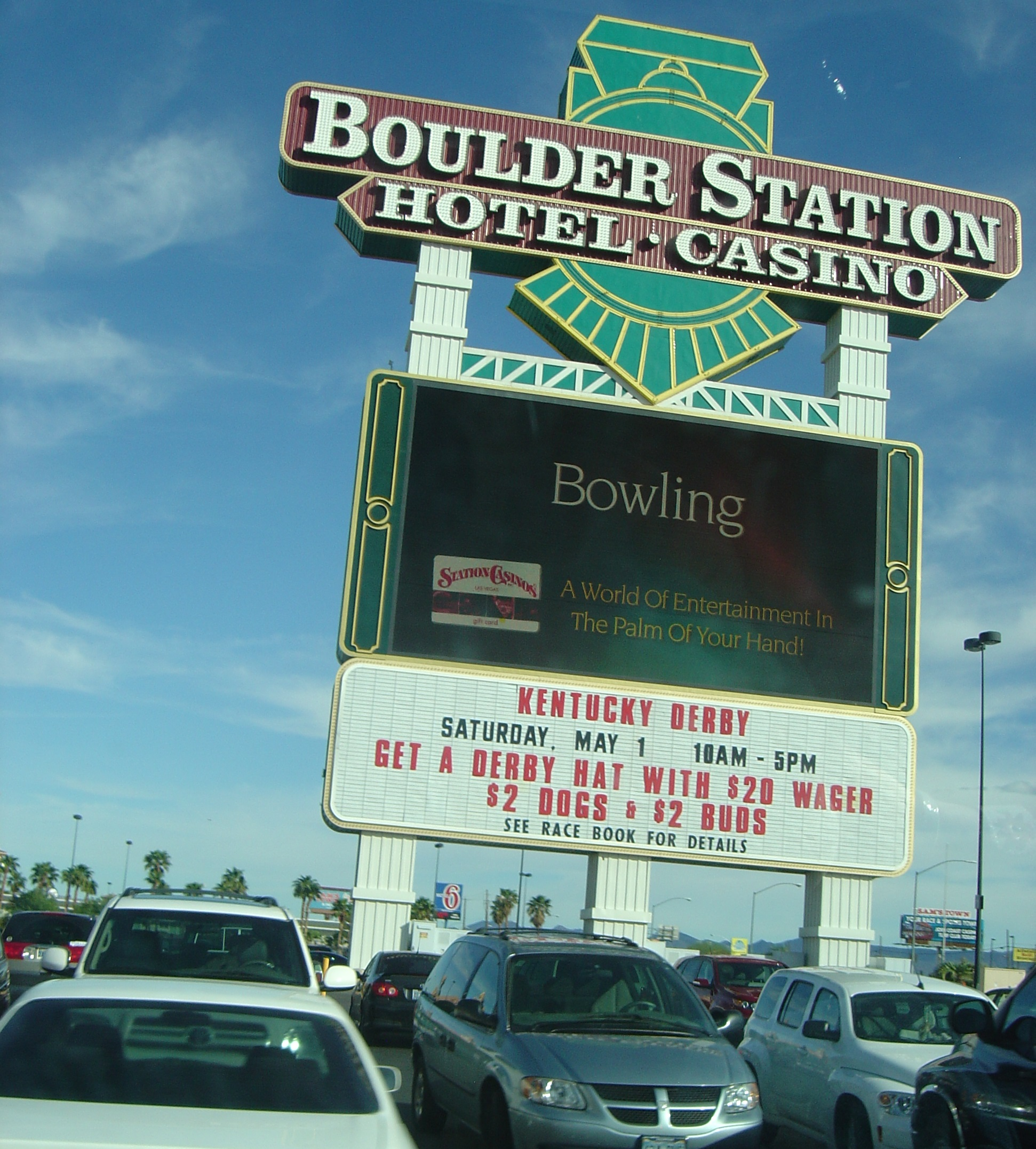 Sign for the Boulder Station hotel-casino in Sunrise Manor, Nevada.